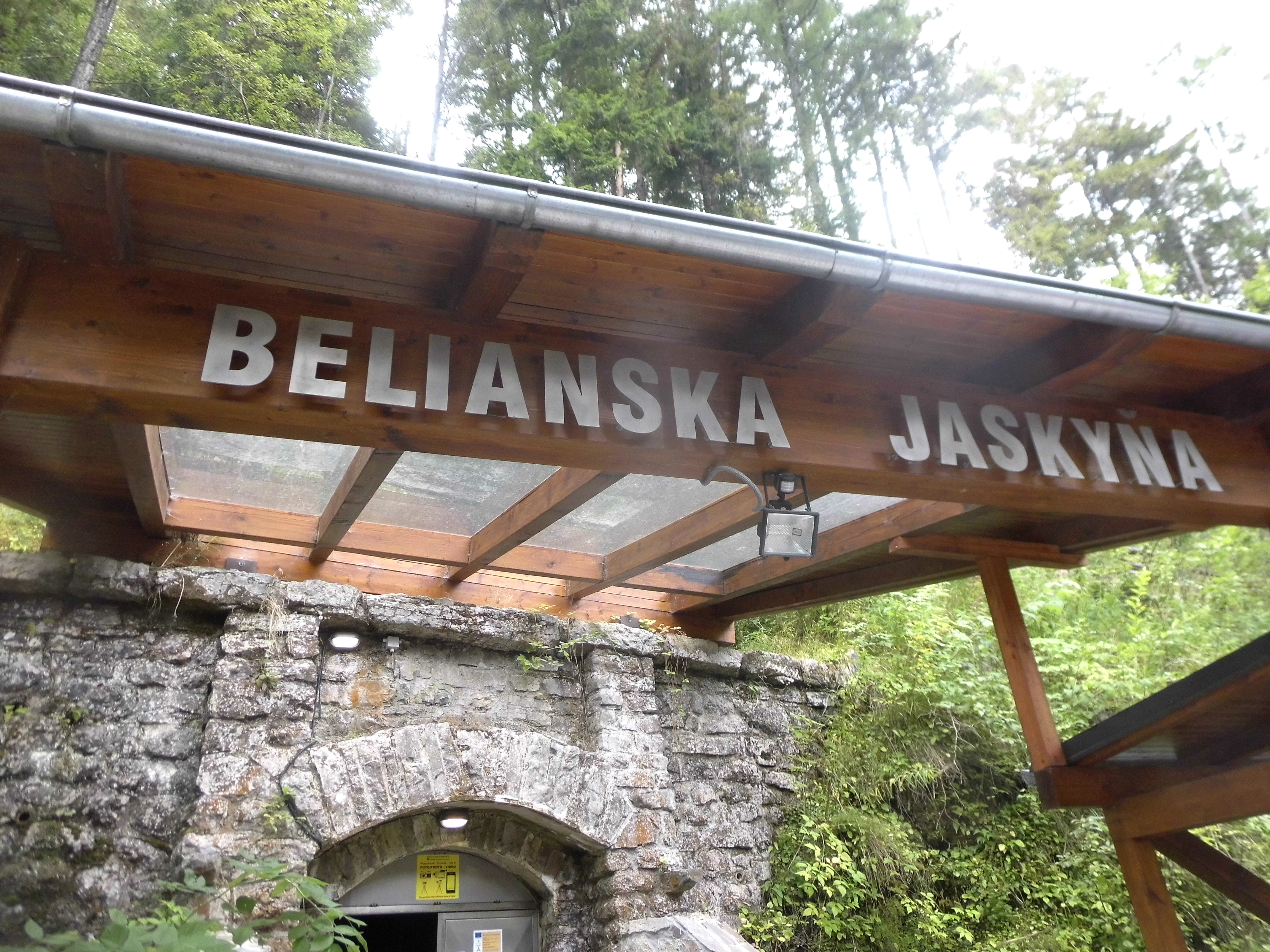 Wejście do Jaskinii Bielskiej.